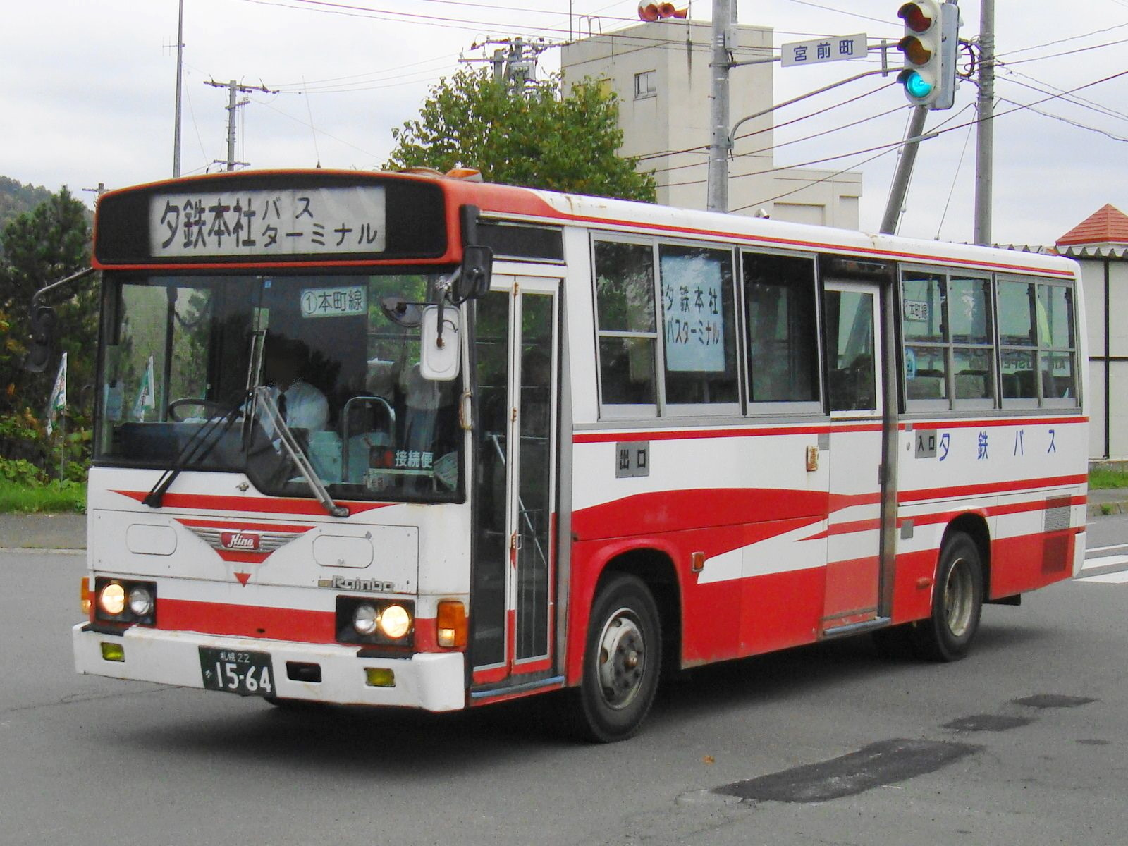 Yūbari city line